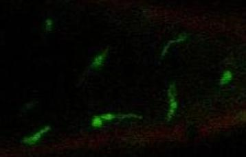 Plastids in an onion epidermal cell transformed with GFP and a plastidic targeting peptide, stromules are visible